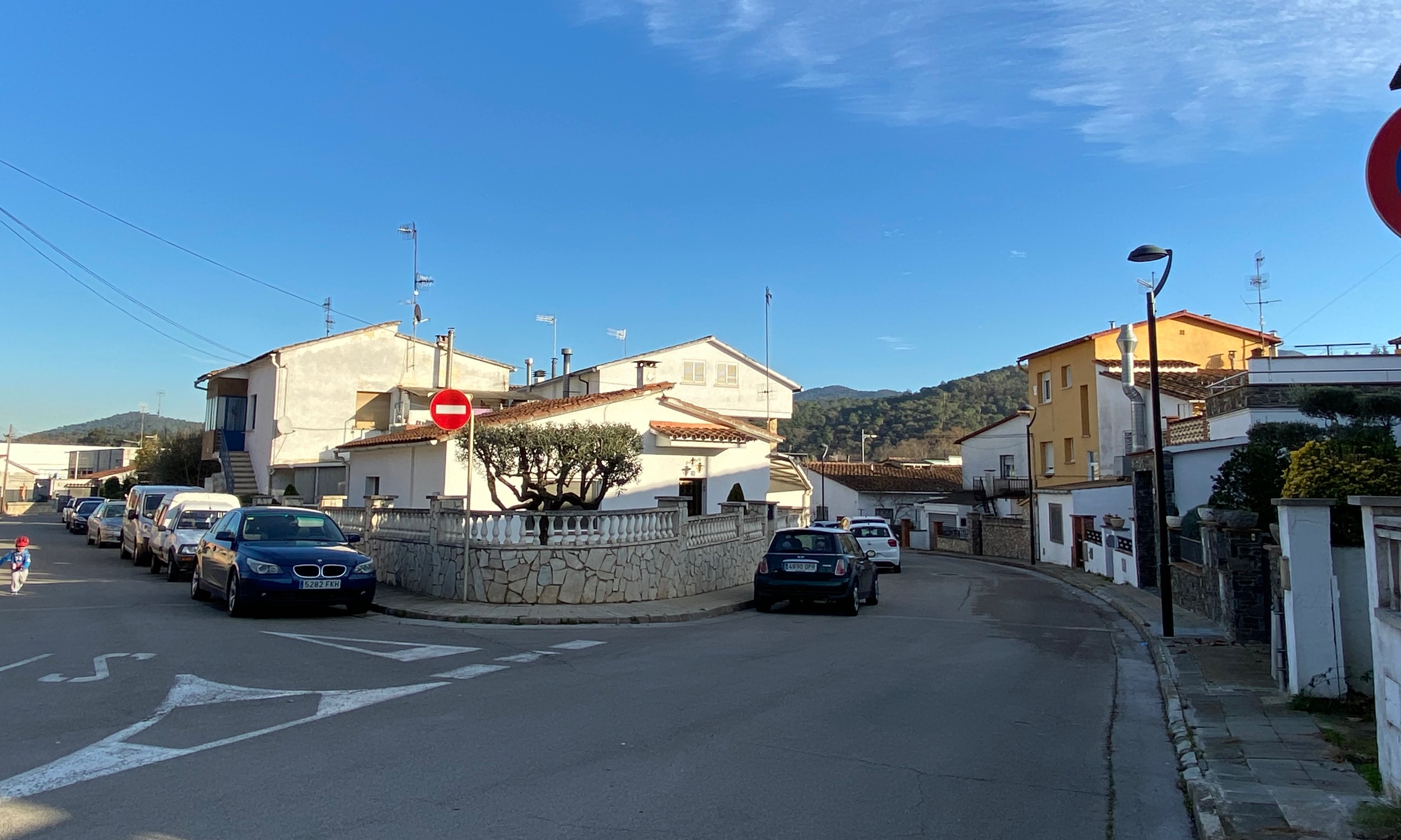 Sant Celoni (El Salicar), Catalonia: Entrance to El Salicar Quarter